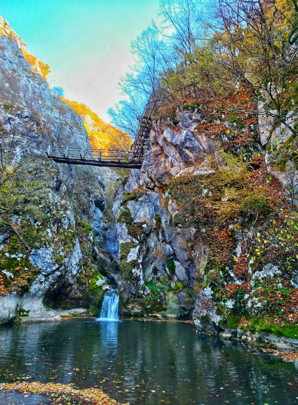 Zeleni Vir